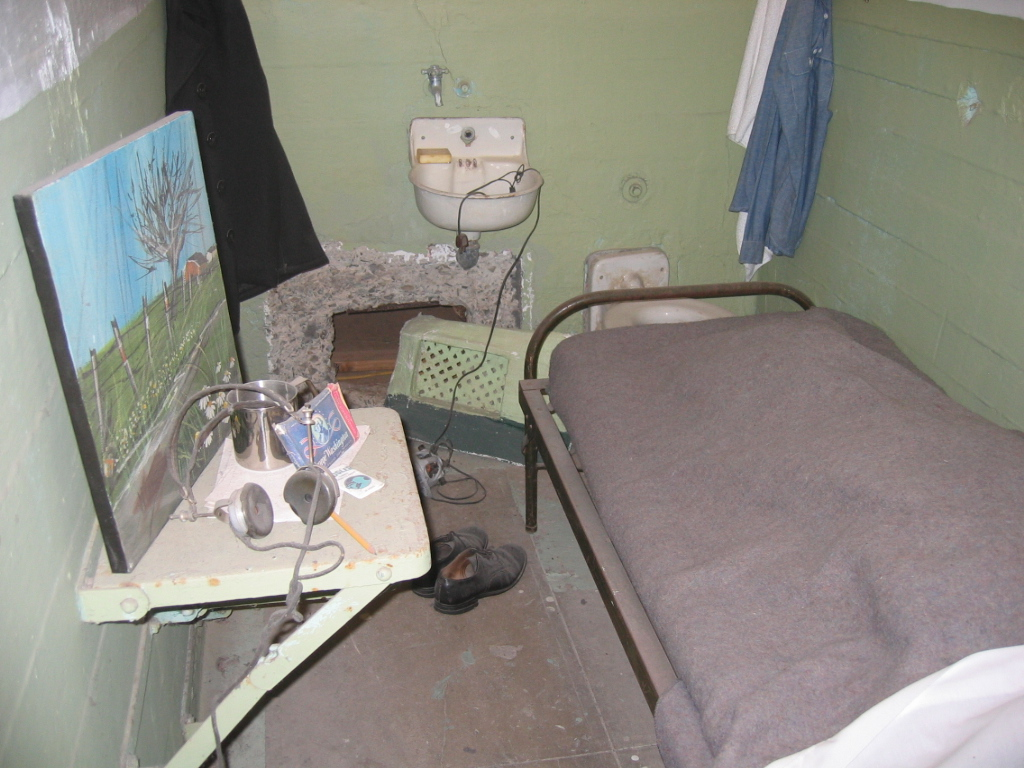 A cell at Alcatraz Typisk celle i det tidligere høysikkerhetsfengslet på øya Alcatraz rett nord for San Francisco.